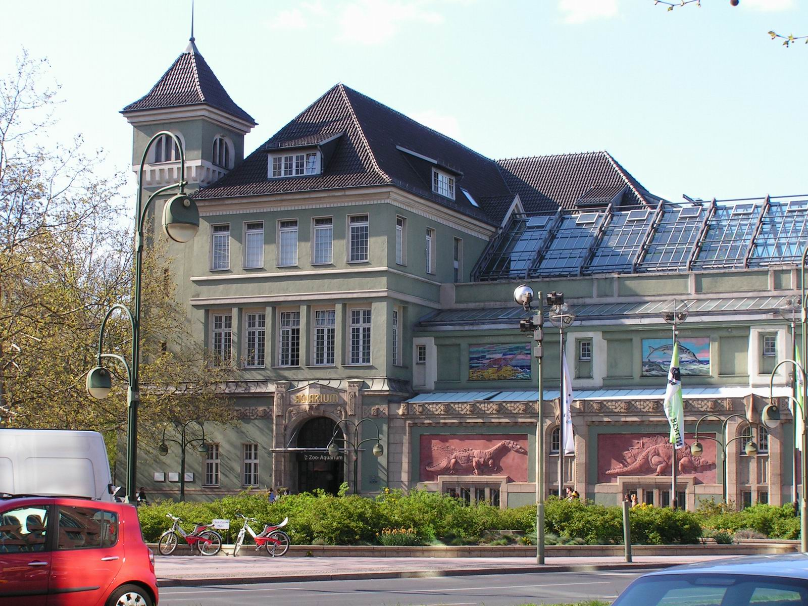 The aquarium of Berlin near the Zoological Garden in Berlin, Germany